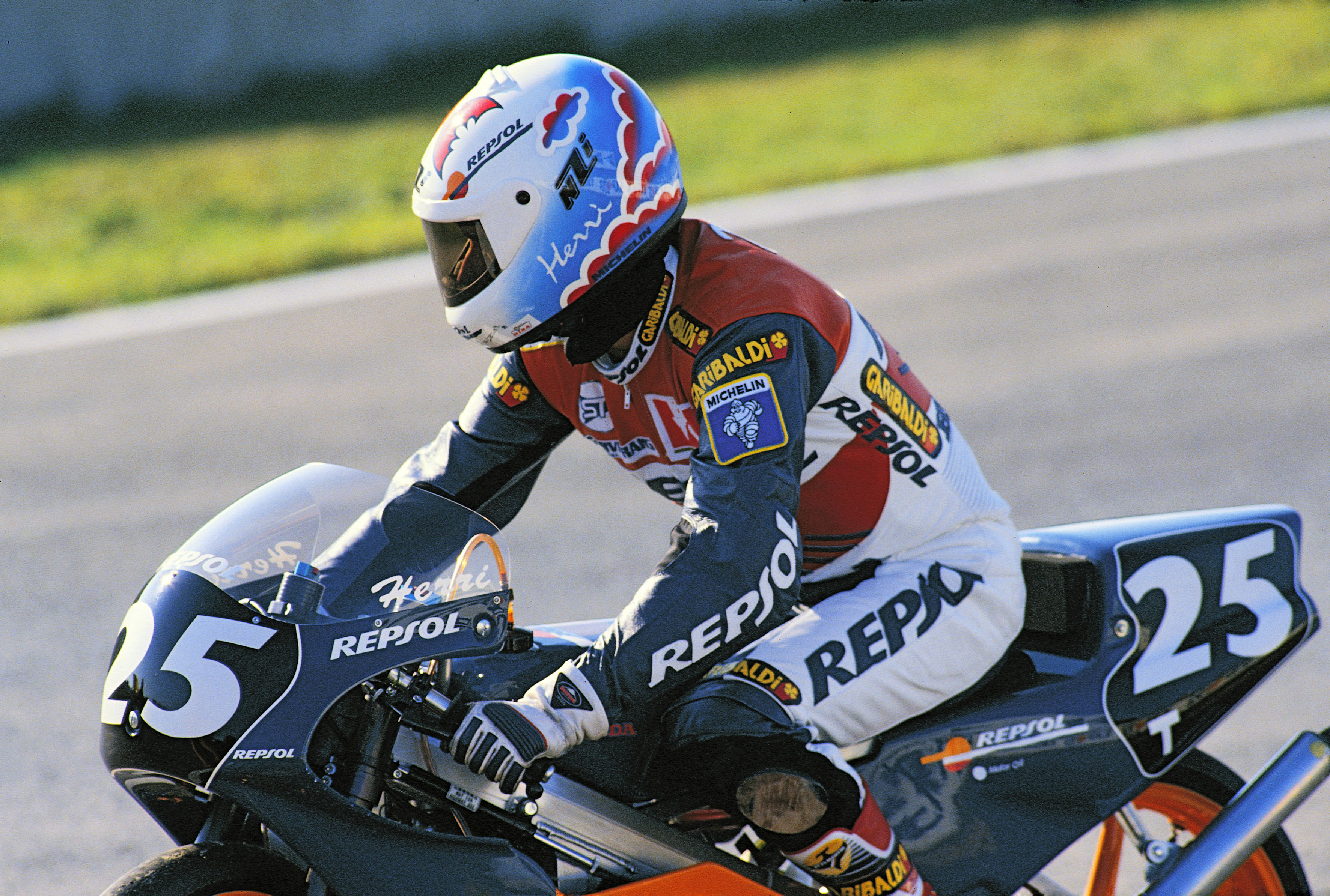 Herri Torrontégui, riding his 125cc Repsol Honda at the 1990 Spanish Grand Prix.